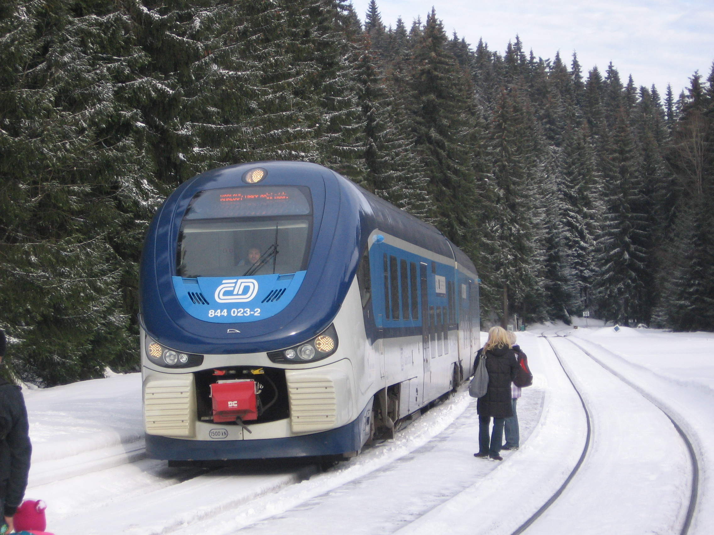 844.023 in Pernink